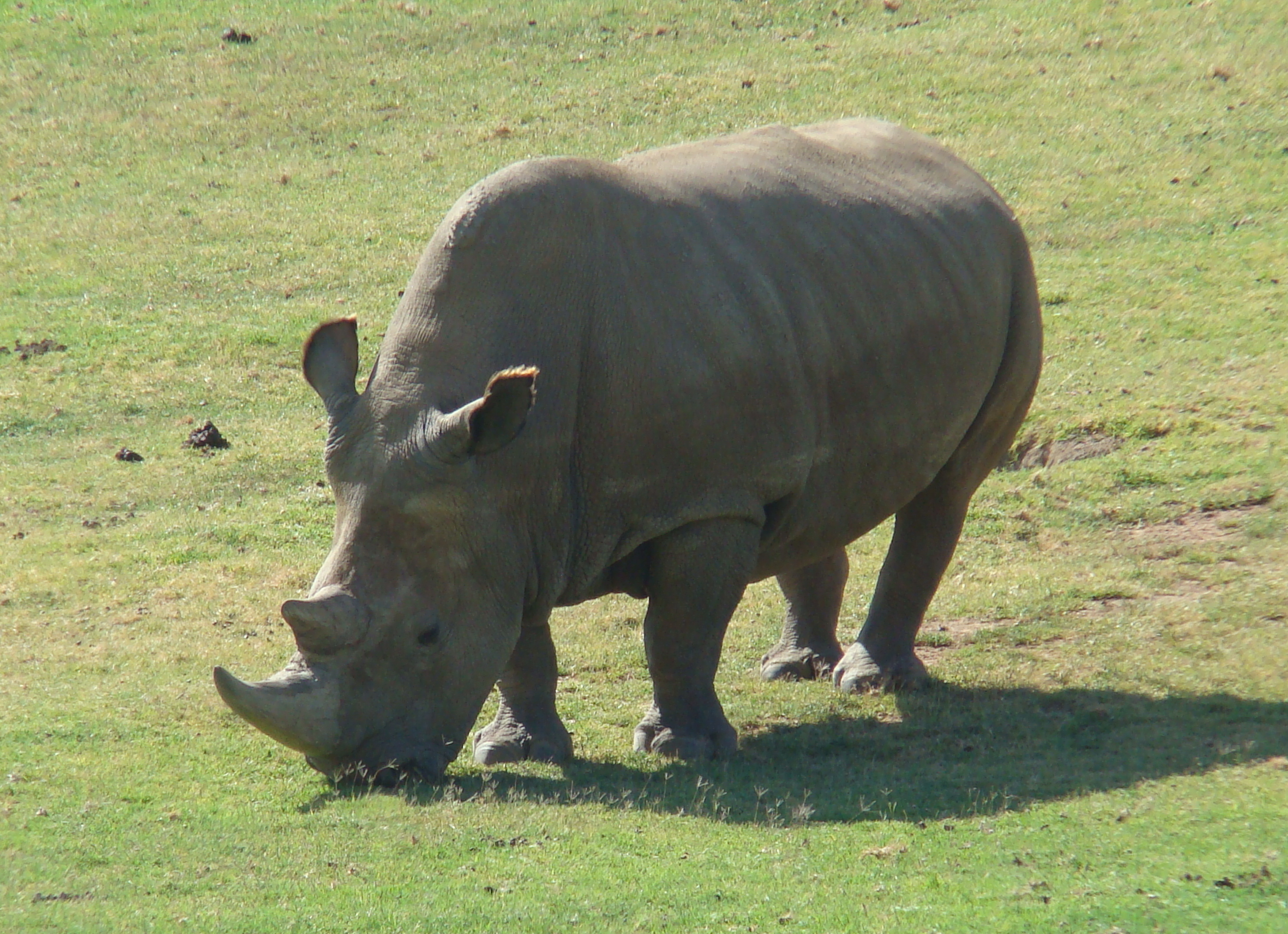 Angalifu, male Northern White Rhinoceros at San Diego Wild Animal Park. Angalifu died from old age on December 14, 2014.